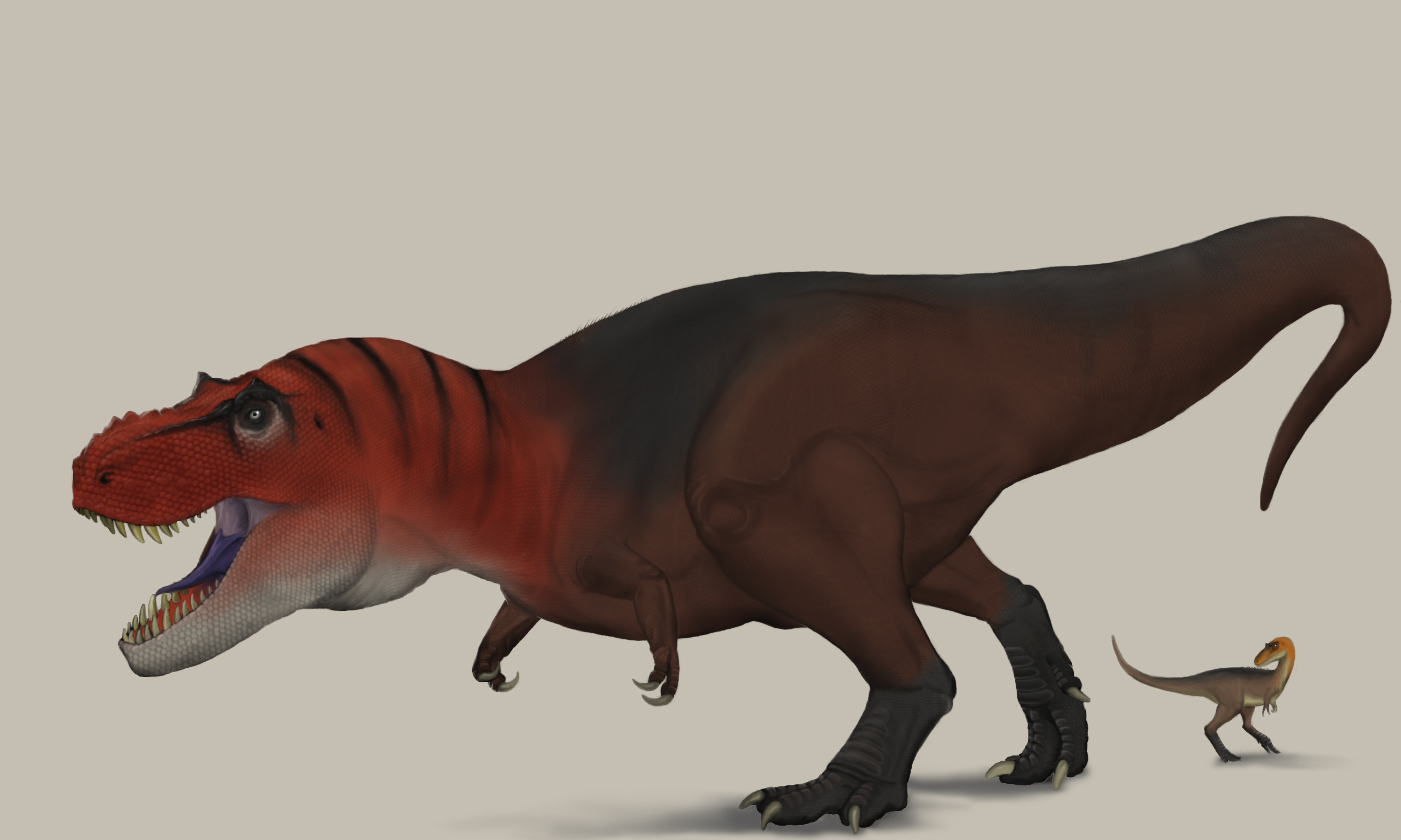 Artwork depicting an adult Tyrannosaurus Rex protecting its young.